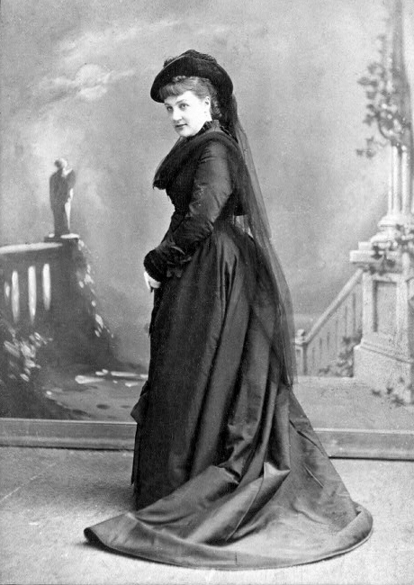 Photograph of Fanny Davenport (1850–1898) Caption reads as follows:Fanny Davenport before she joined Mr. Daly[Davenport joined Augustin Daly's stock company in 1869]